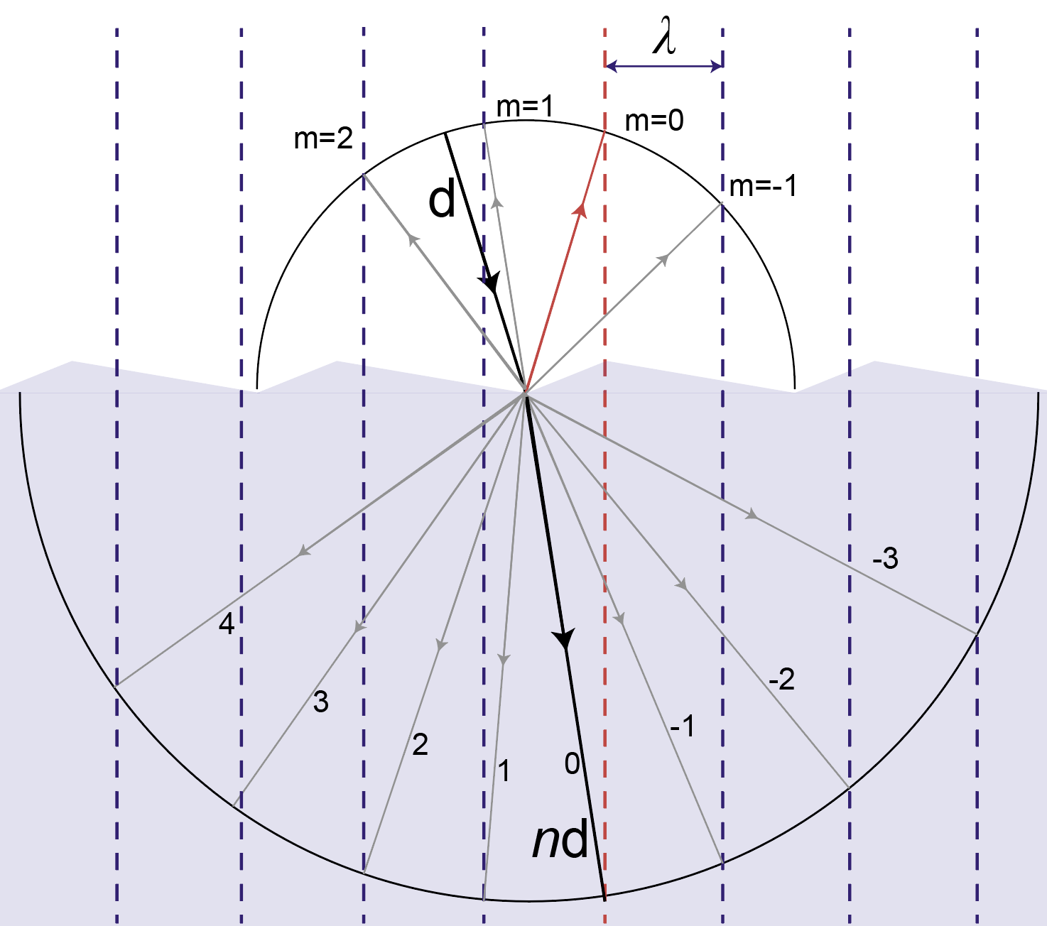 Illustration for finding diffraction orders